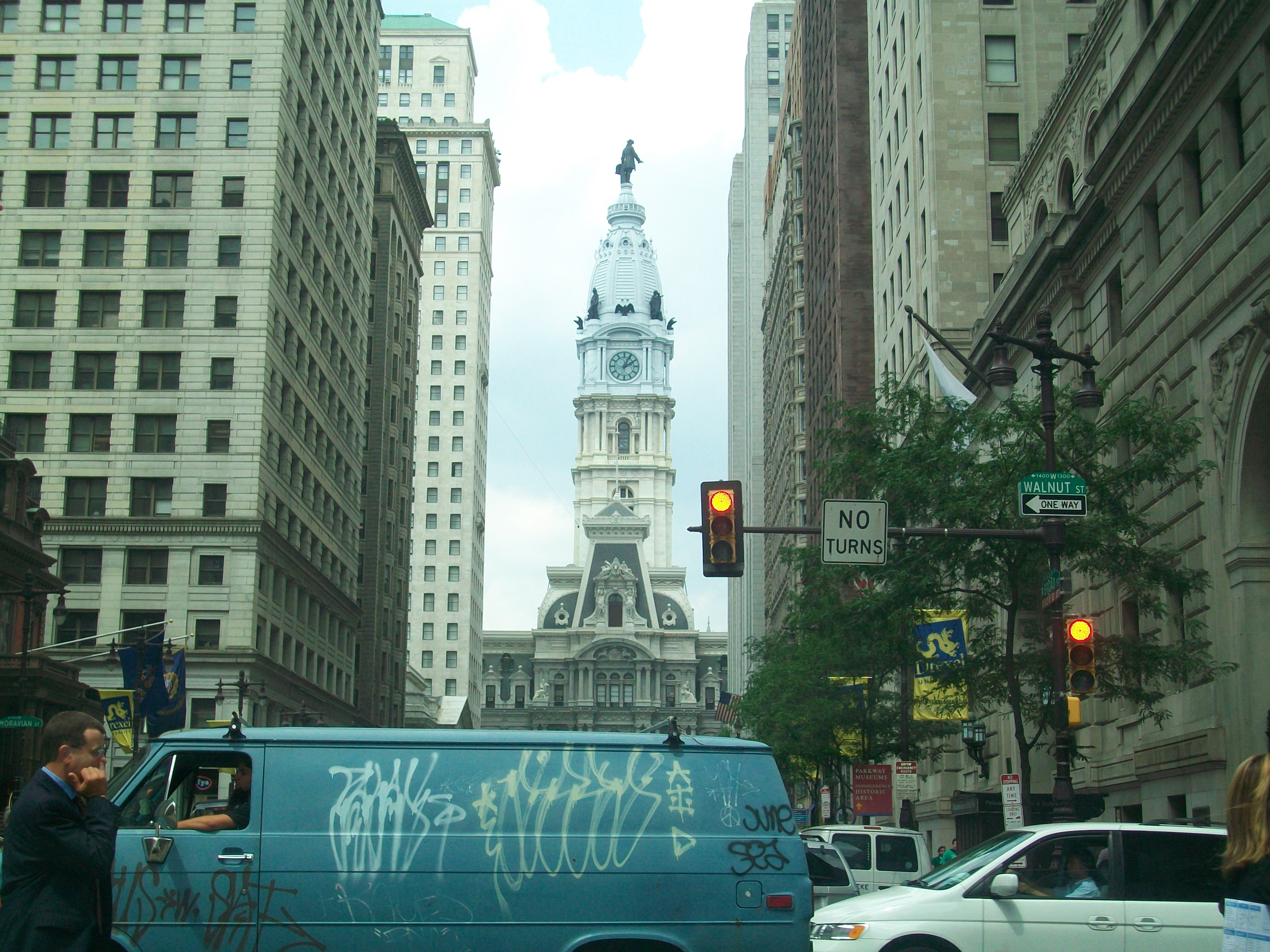 View of Philadelphia City Hall from the corner of Broad and Walnut Streets.